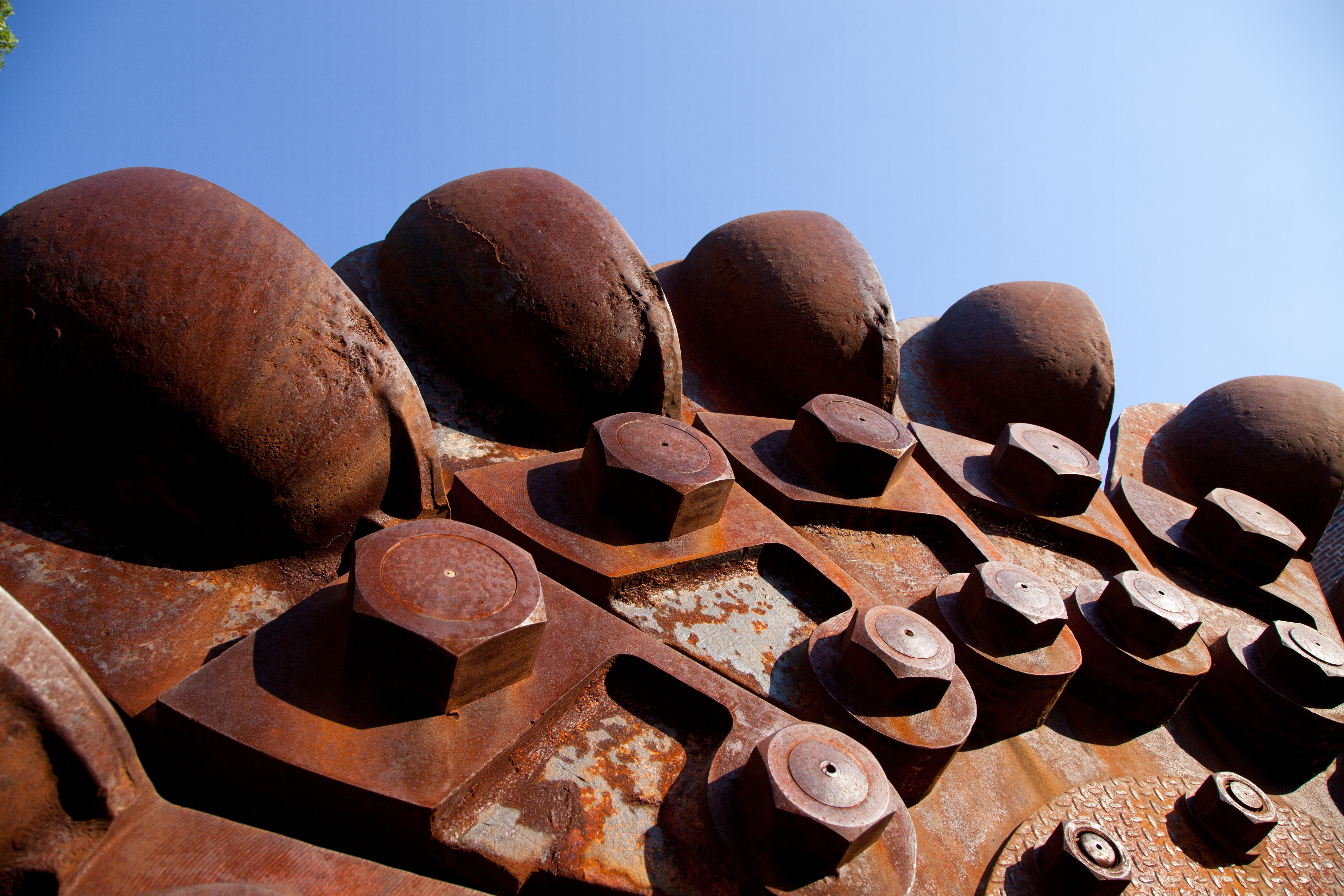 Nevada City Downtown Historic District